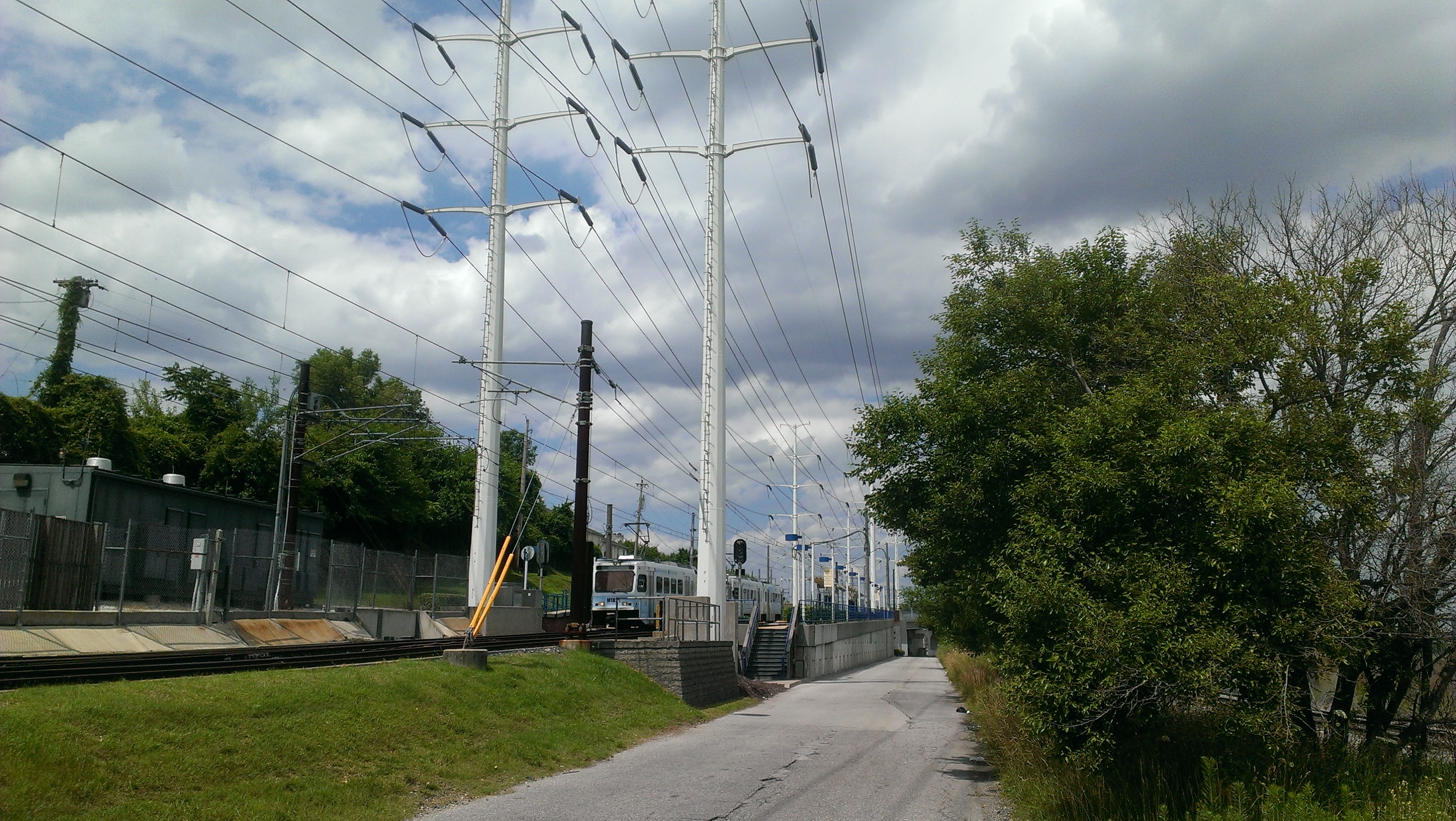 A view of the Light Rail in Baltimore City from Kloman Street at its Westport Station.